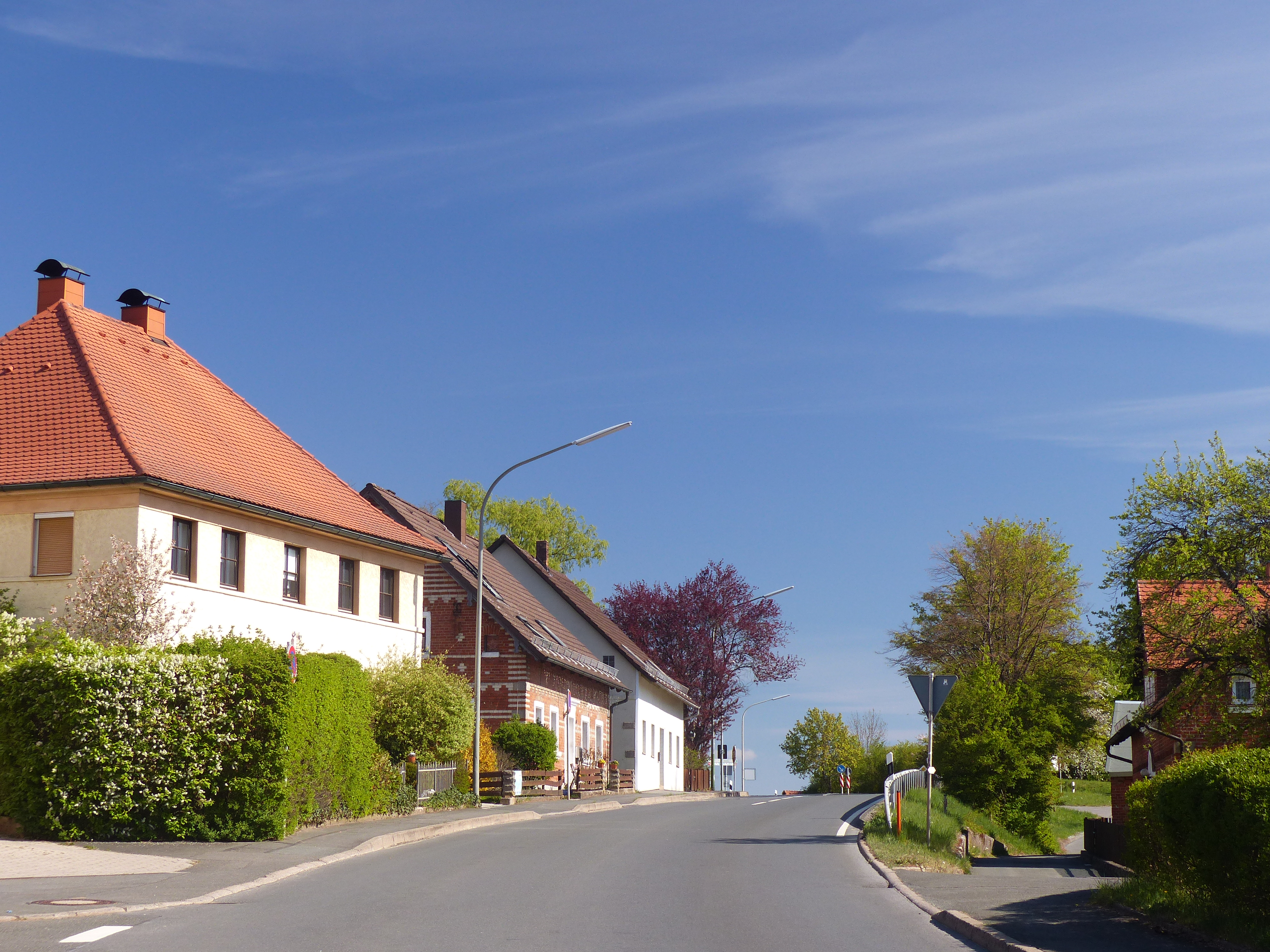 The village Pittersdorf, a district of the municipality of Hummeltal.